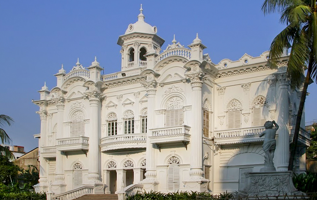 Rose Garden mansion in Old Dhaka